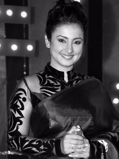 Divya Dutta at Irrfan Khan & Aditi Rao Hydari on NDTV's show 'Ticket To Bollywood'